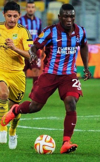 Abdul Majeed Waris